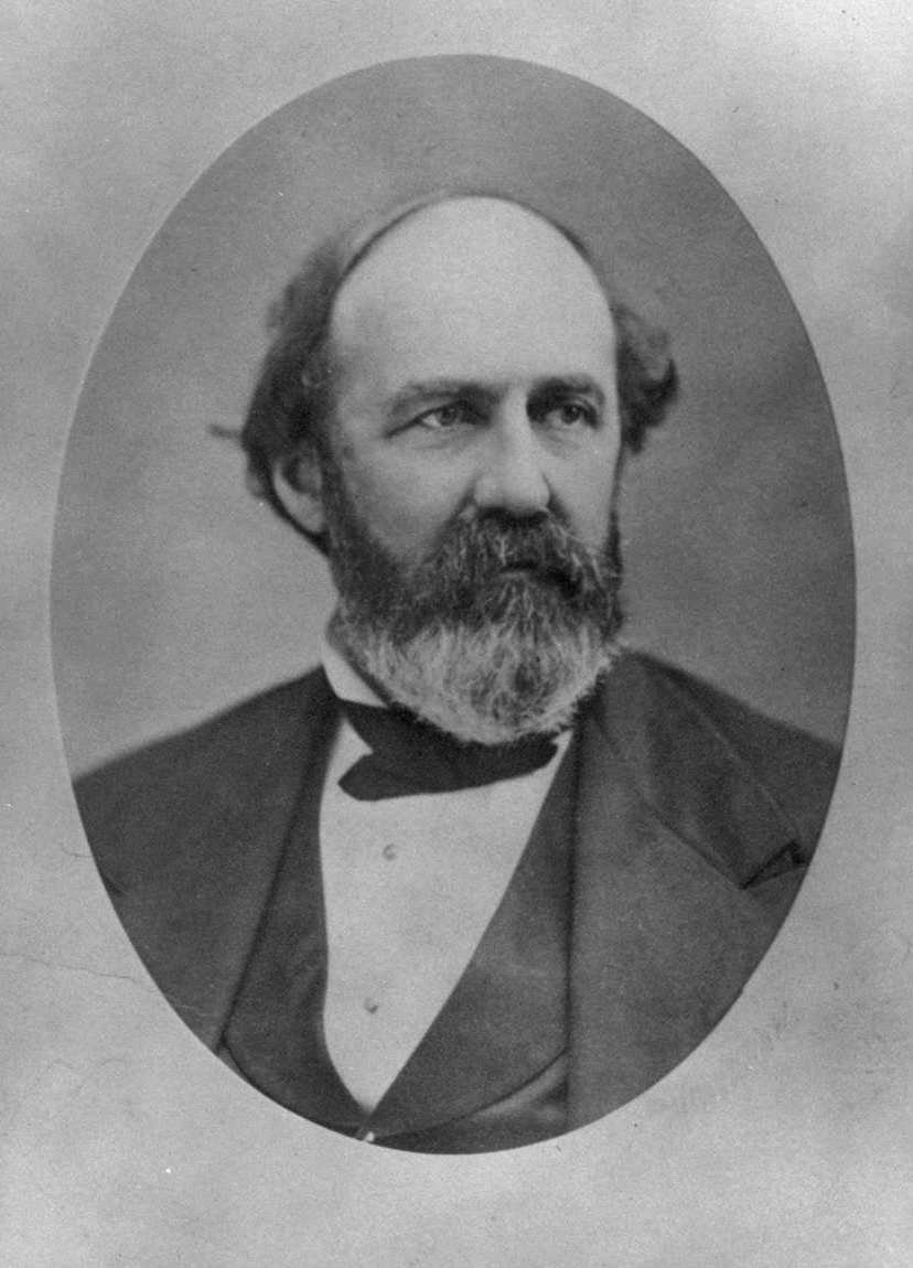 Collis Potter Huntington (1821-1900), American railroad magnate, co-founded the Central Pacific Railroad.